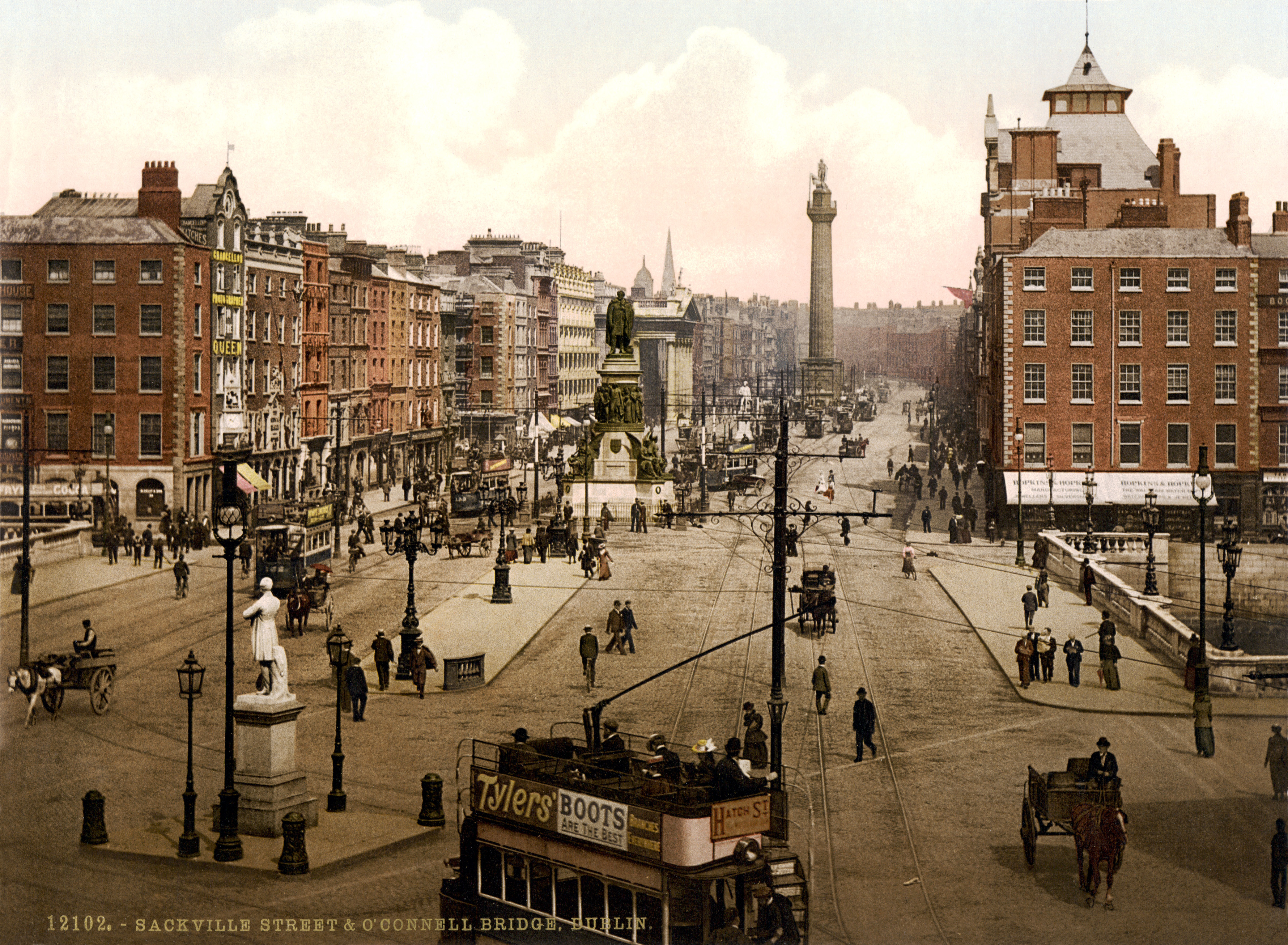 12102 P.Z. Sackville Street & O'Connell Bridge, Dublin. Photochrom print by Photoglob Zürich, between 1890 and 1900. From the Photochrom Prints Collection at the Library of Congress More photochroms from Ireland | More photochrom prints [PD] This picture is in the public domain